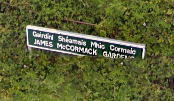 'James McCormack Gardens': the cul-de-sac dedicated in 1949 to activist and revolutionary hero of the Easter Rising, James McCormack, in Dublin, Ireland.